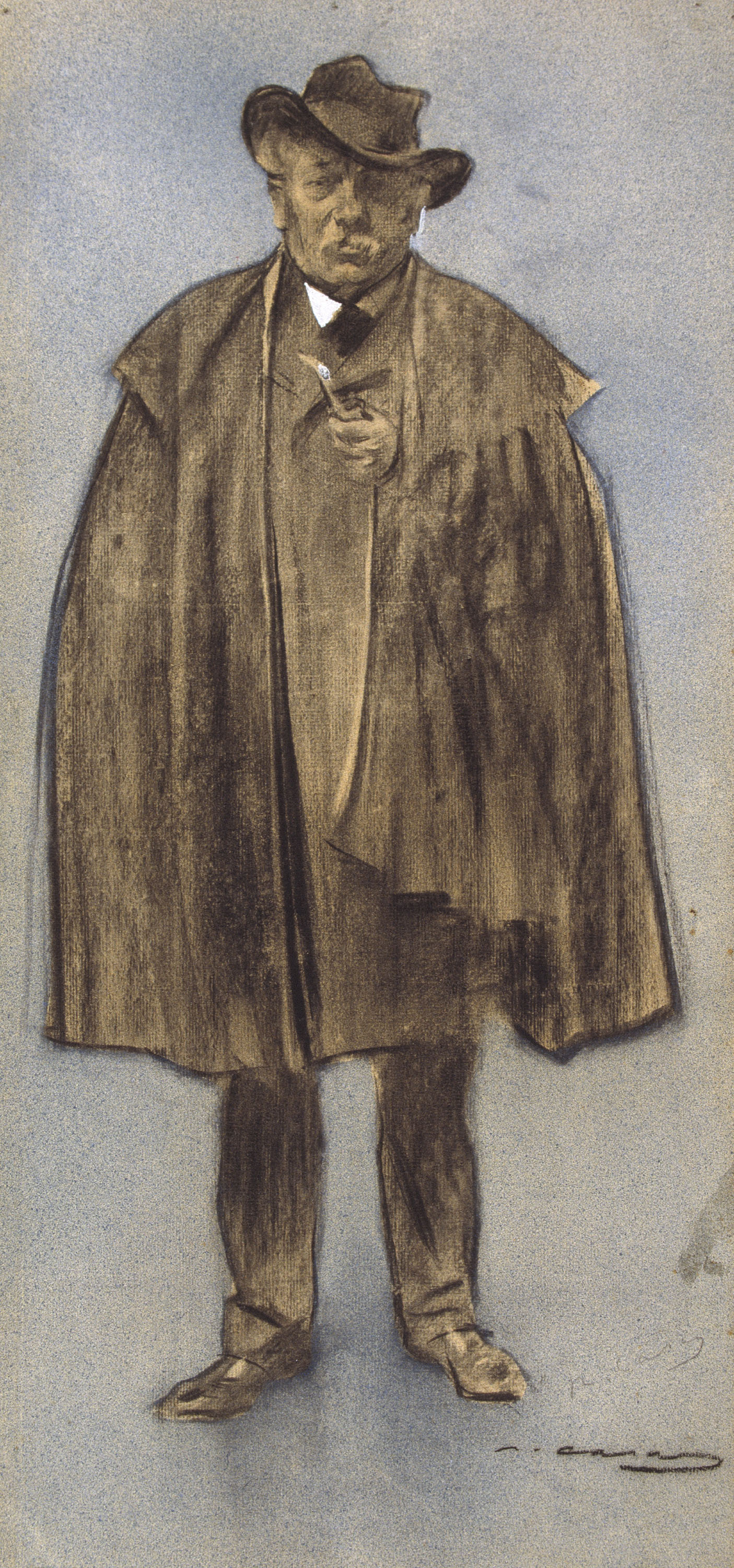 Portrait by Ramon Casas conserved at MNAC in Barcelona. Imagen 056